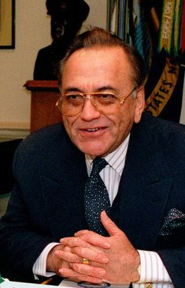 Pakistani Minister of Foreign Affairs Mian Khurshid Mahmud Kasuri (right) meets with Secretary of Defense Donald H. Rumsfeld (foreground) in the Pentagon on January 27, 2003. The two men are meeting to discuss a range of bilateral security issues of interest to both nations. (cropped)]